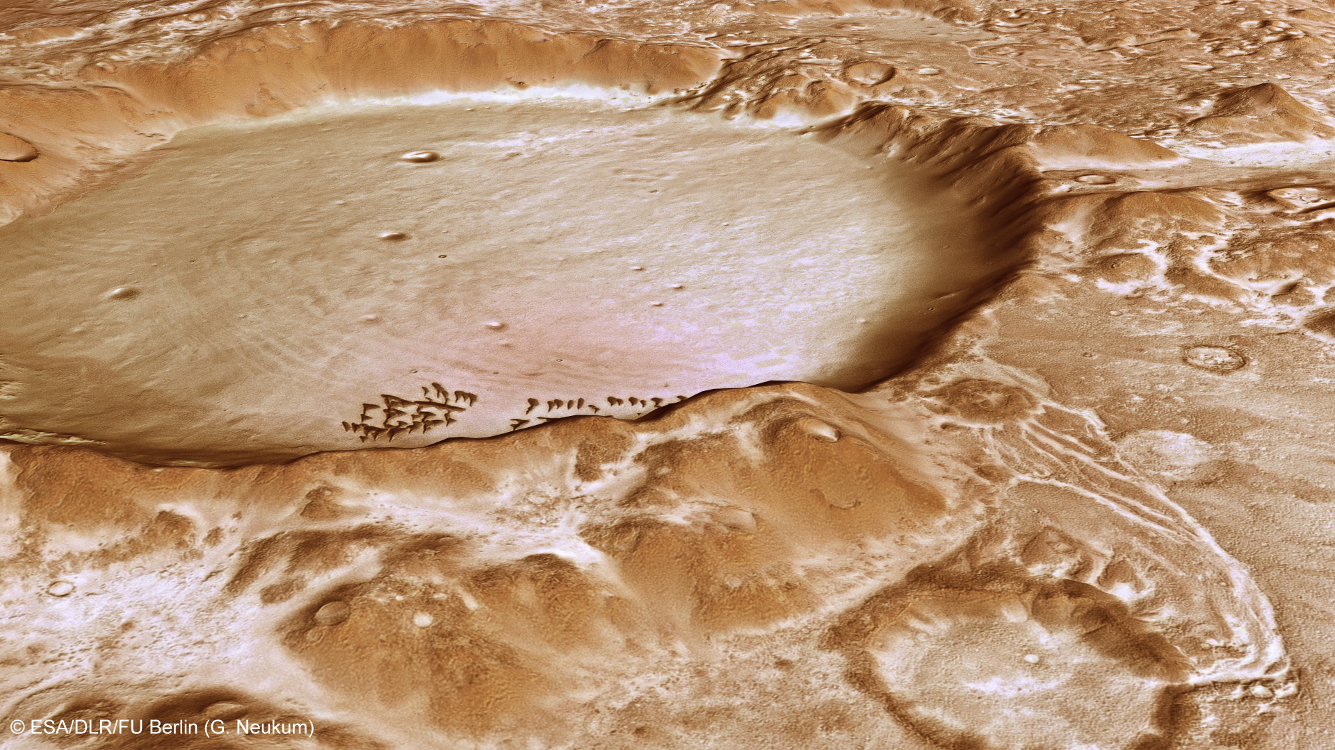 This computer-generated perspective view of Charitum Montes was created using data obtained from the High-Resolution Stereo Camera (HRSC) on ESA’s Mars Express. Centred at around 53°S and 334°E, the image has a ground resolution of about 20 m per pixel. The image shows the large breach in the northern wall of the crater, located near to the uppermost sand dune. The dusting of carbon dioxide ice is a seasonal feature in this region, which covers the crater floor and the surrounding plains. Credit: ESA/DLR/FU Berlin (G. Neukum), CC BY-SA 3.0 IGO Copyright Notice: This work is licenced under the Creative Commons Attribution-ShareAlike 3.0 IGO (CC BY-SA 3.0 IGO) licence. The user is allowed to reproduce, distribute, adapt, translate and publicly perform this publication, without explicit permission, provided that the content is accompanied by an acknowledgement that the source is credited as 'ESA/DLR/FU Berlin’, a direct link to the licence text is provided and that it is clearly indicated if changes were made to the original content. Adaptation/translation/derivatives must be distributed under the same licence terms as this publication. To view a copy of this license, please visit